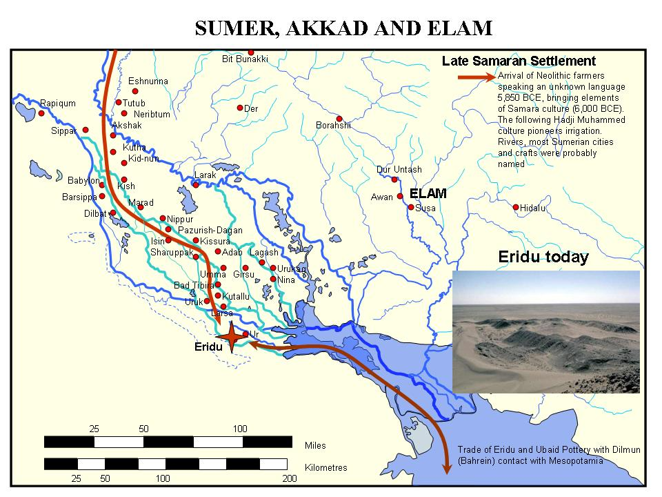 Ancient cities of Sumer